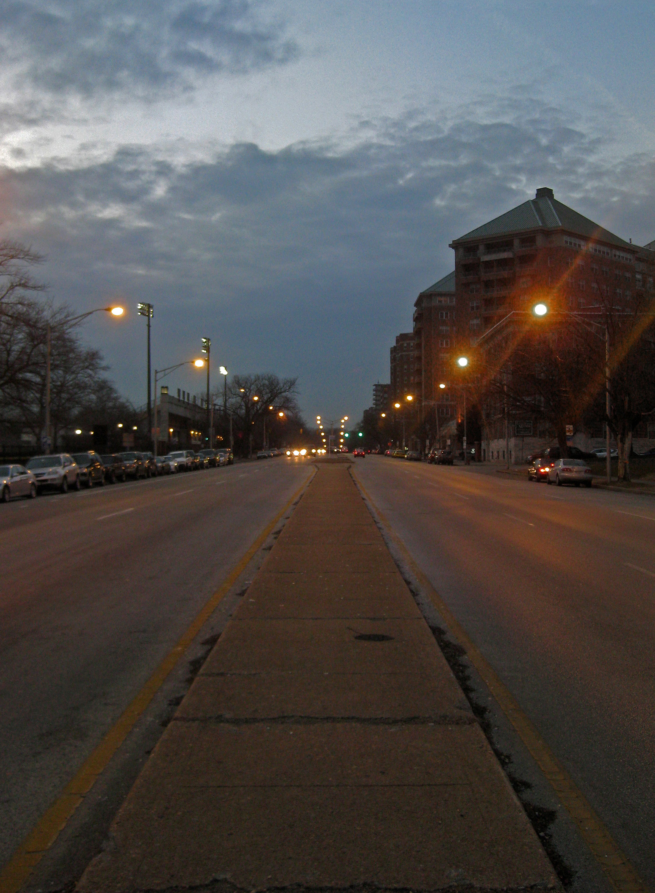 Road in Charles Village, Baltimore